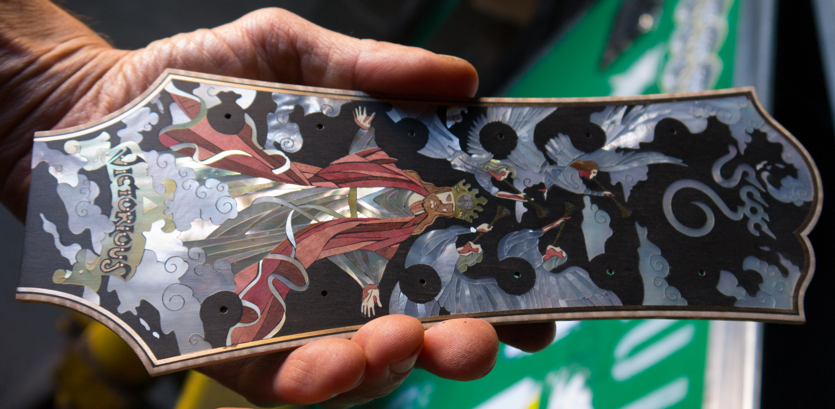 Close-up of the headstock for a 12-string acoustic guitar at an intermediate stage in manufacturing. The headstock features detailed pearl inlays creating a religious illustration.